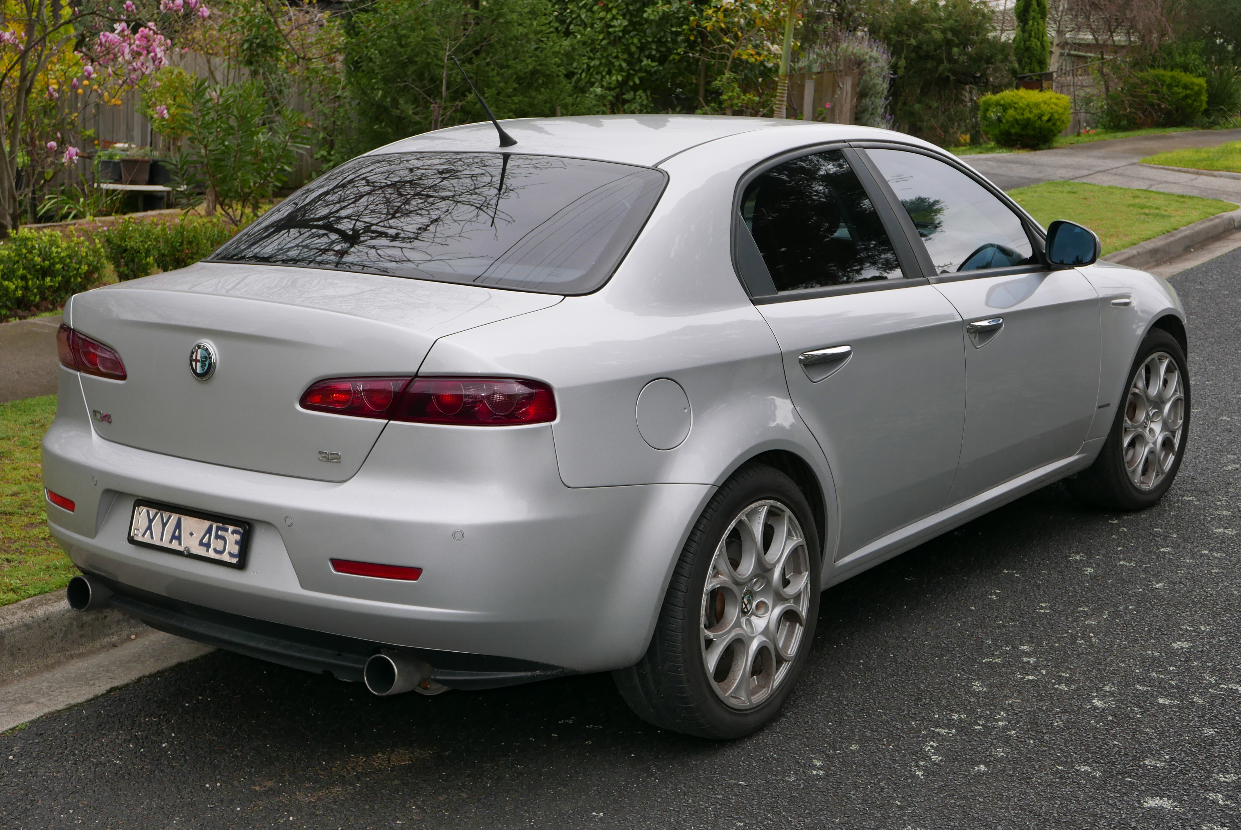 2007 Alfa Romeo 159 JTS Q4 sedan. Photographed in Doncaster, Victoria, Australia. Vehicle registration enquiry results Jurisdiction Victoria Registration XYA453 Chassis code ZAR93900007062099 Engine code 939A0000005896 Compliance date 2007-09 Year of manufacture 2007